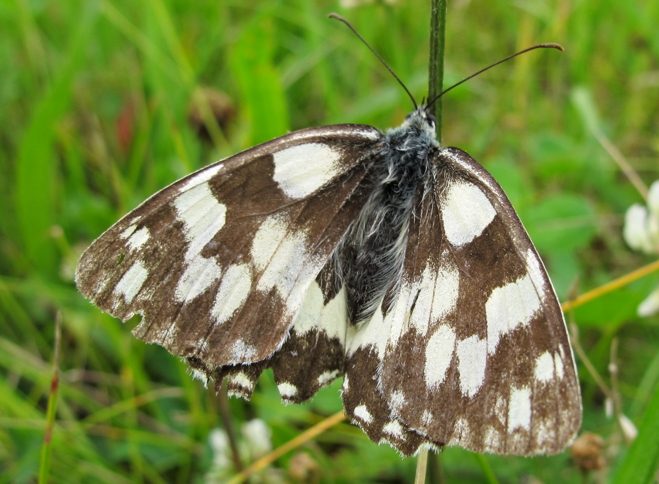 Melanargia galathea, grass field near Huštký rybník pond near Dobříš, Příbram District in Czech republic